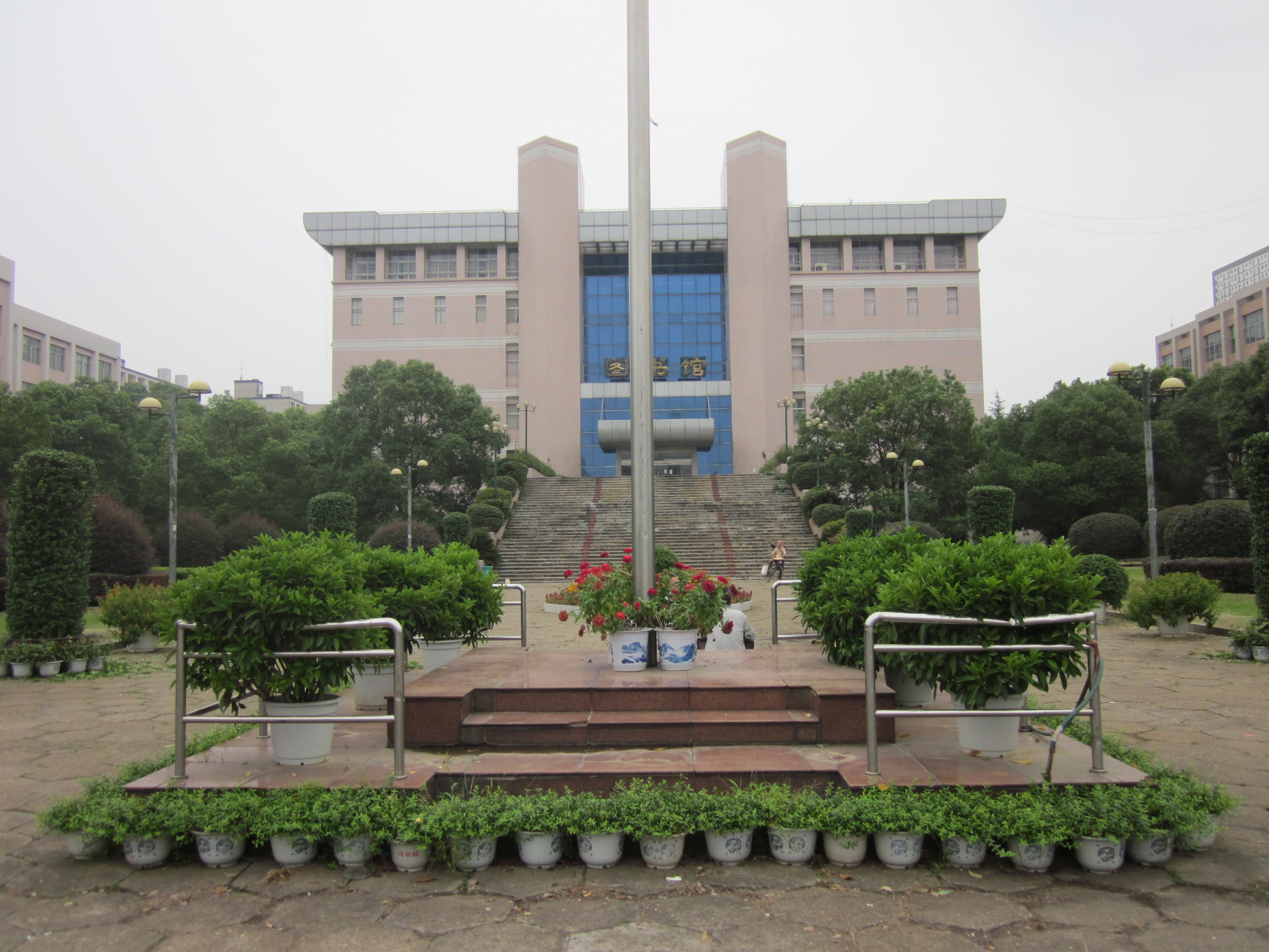 Hunan University of Commerce，or HUC (Chinese: 湖南商学院; pinyin: Húnán Shāng Xuéyuàn)，is a government-sponsored full-time college,and one of the universities and colleges specially supported by the overall economic and social development program of Hunan province. Located in the Lushan University Park of Changsha.